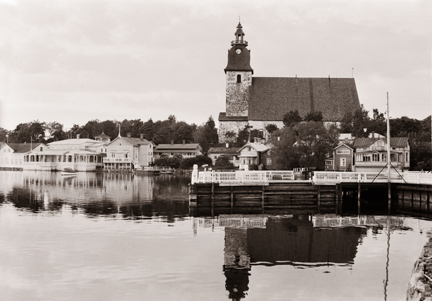 Naantali mediaeval convent church and guest harbour at 1920s, Naantali, Finland